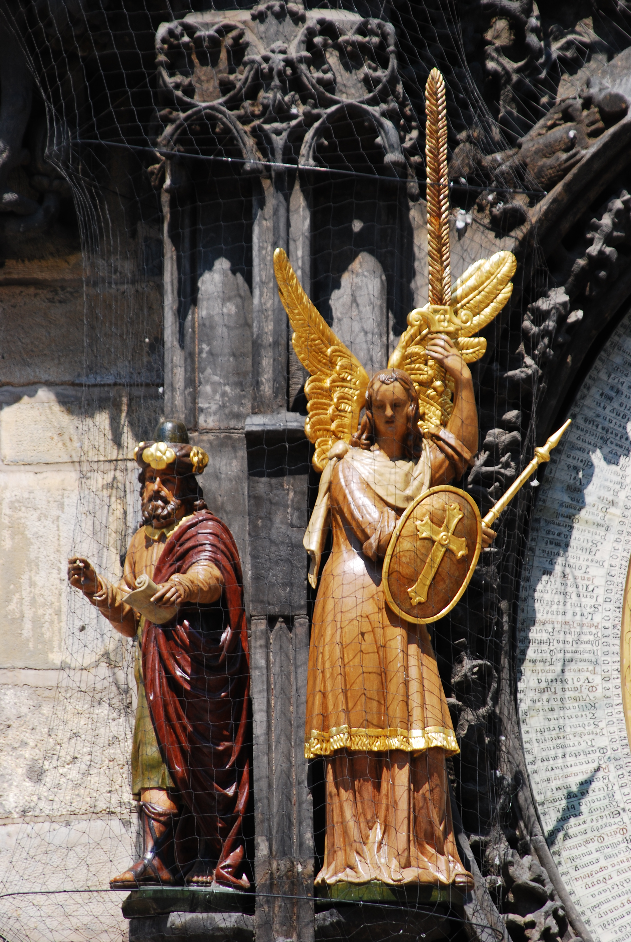 The Prague Astronomical Clock or Prague Orloj (Czech: Pražský orloj, praʒski: ɔrlɔi) is a medieval astronomical clock located in Prague, the capital of the Czech Republic. The Orloj is mounted on the southern wall of Old Town City Hall in the Old Town Square and is a popular tourist attraction. The Orloj is composed of three main components: the astronomical dial, representing the position of the Sun and Moon in the sky and displaying various astronomical details; "The Walk of the Apostles", a clockwork hourly show of figures of the Apostles and other moving sculptures; and a calendar dial with medallions representing the months. Click below for a full demonstration of how the orlo works